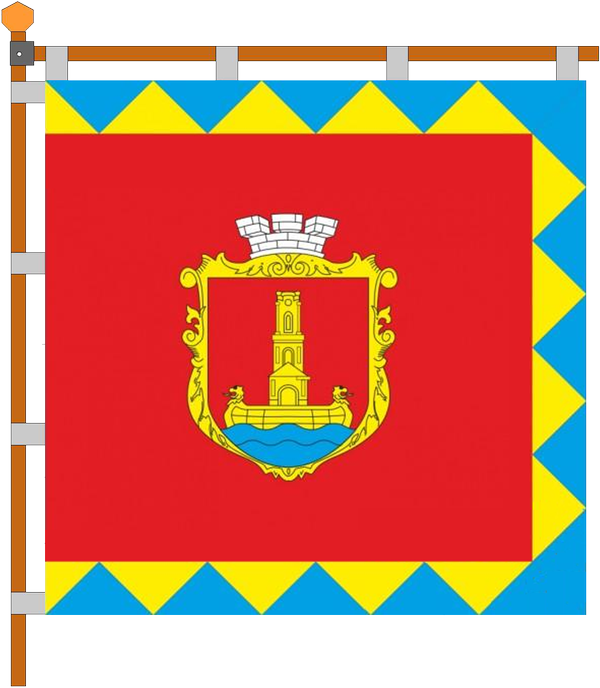 Flag of Kopets Rivne Oblast Ukraine approved by Kopets city counsel September 18 1995